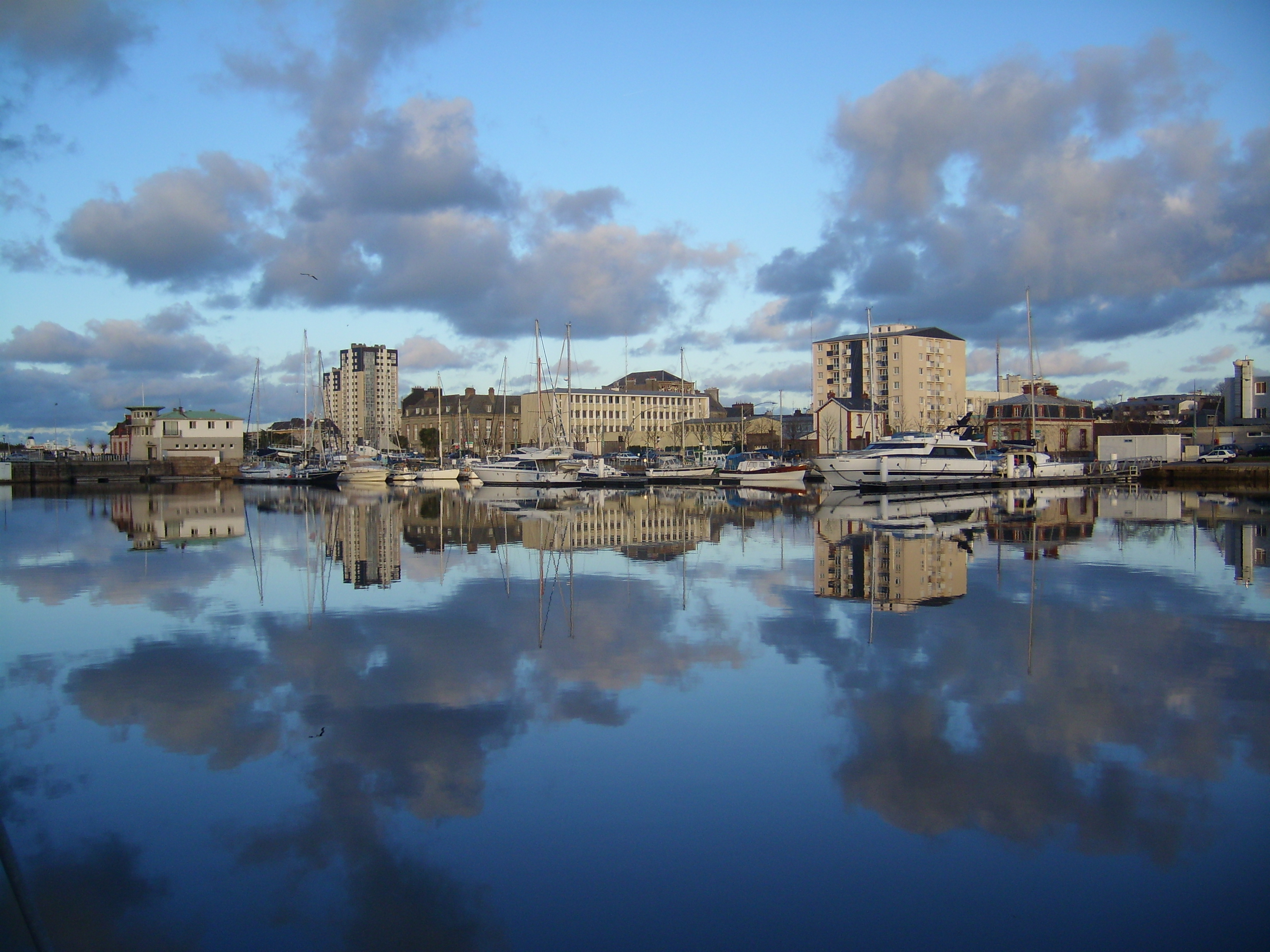 Cherbourg-Octeville